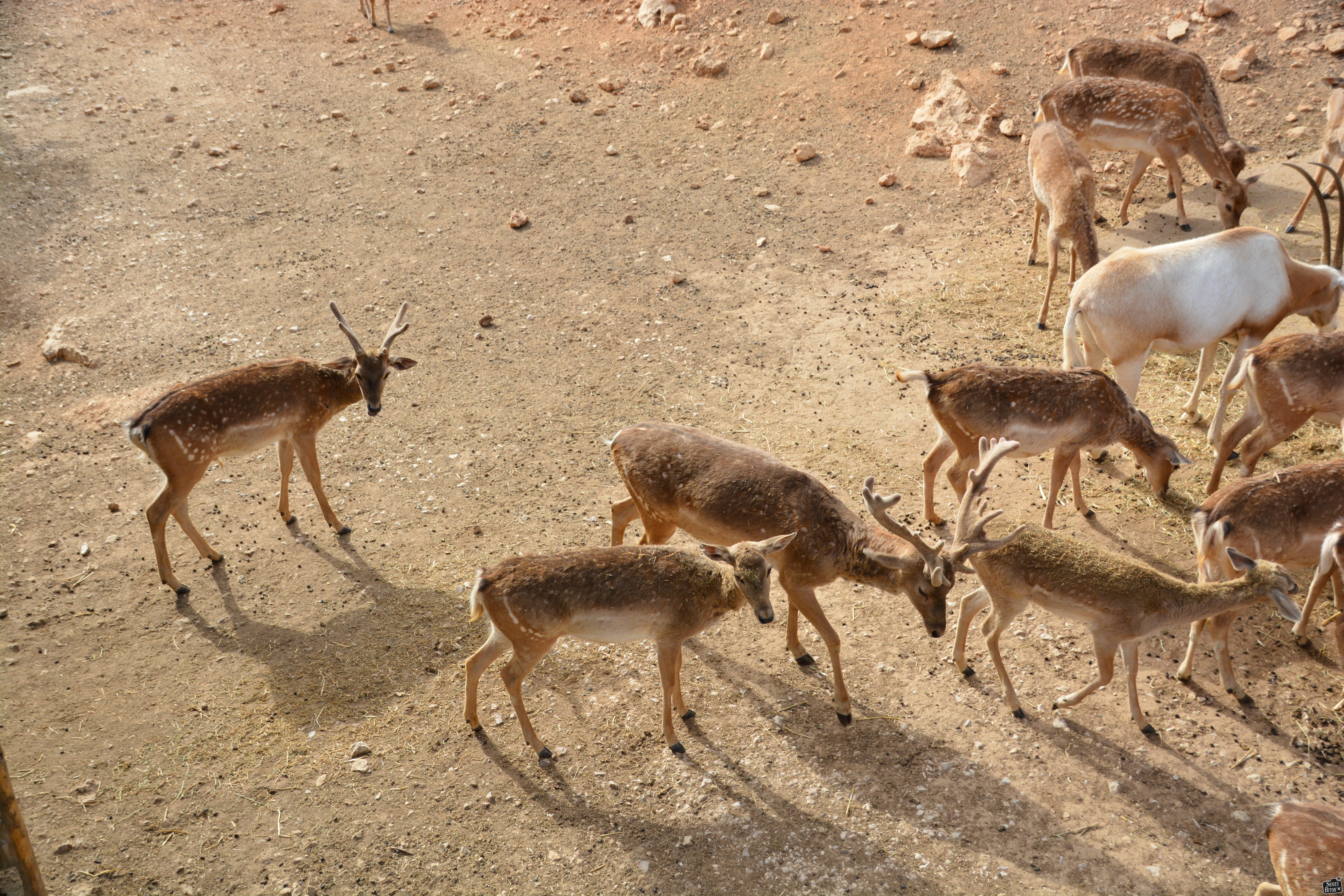 Biblical Zoo in Jerusalem